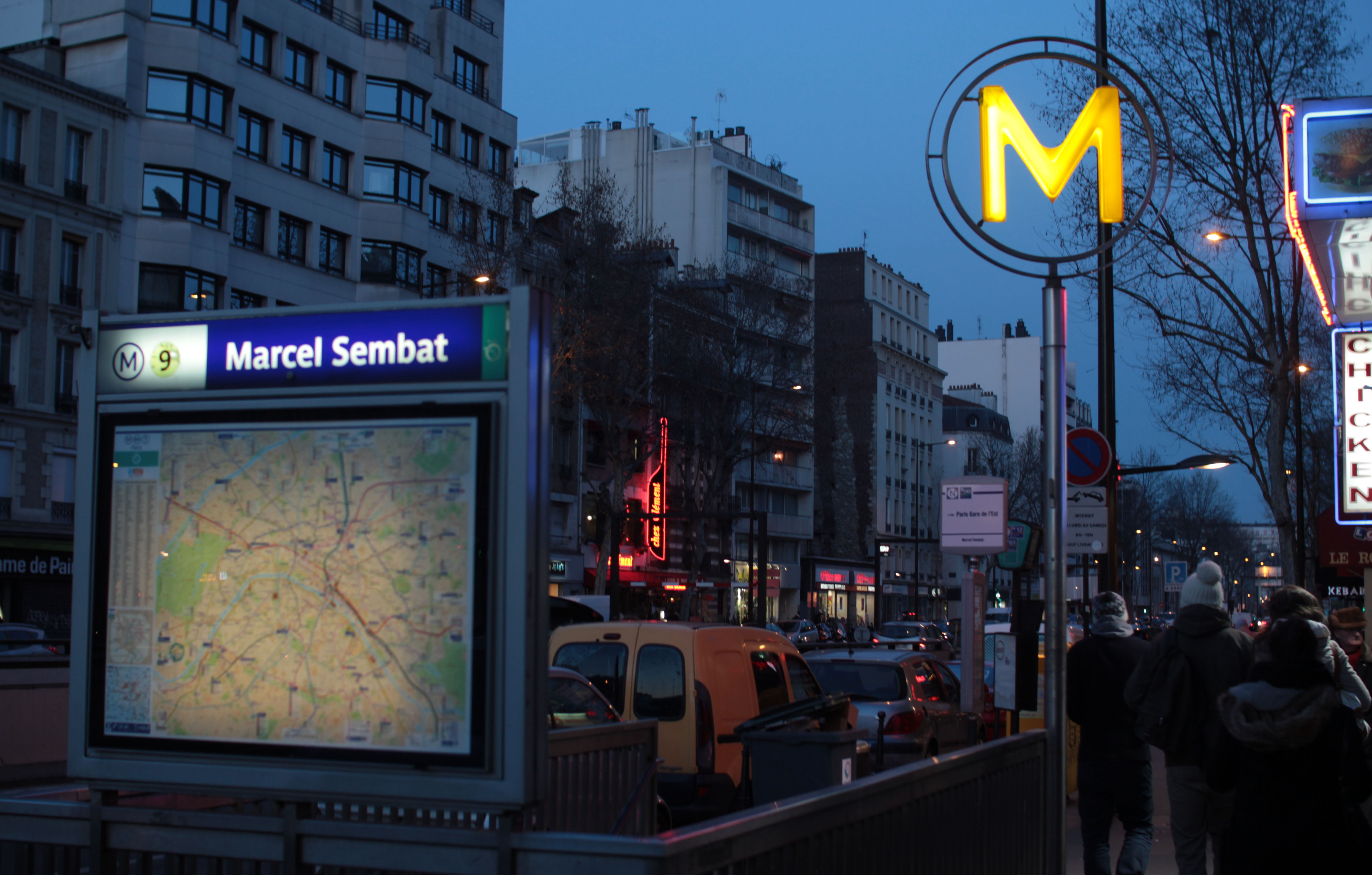 Marcel Sembat metrostation, entrance av de la republique